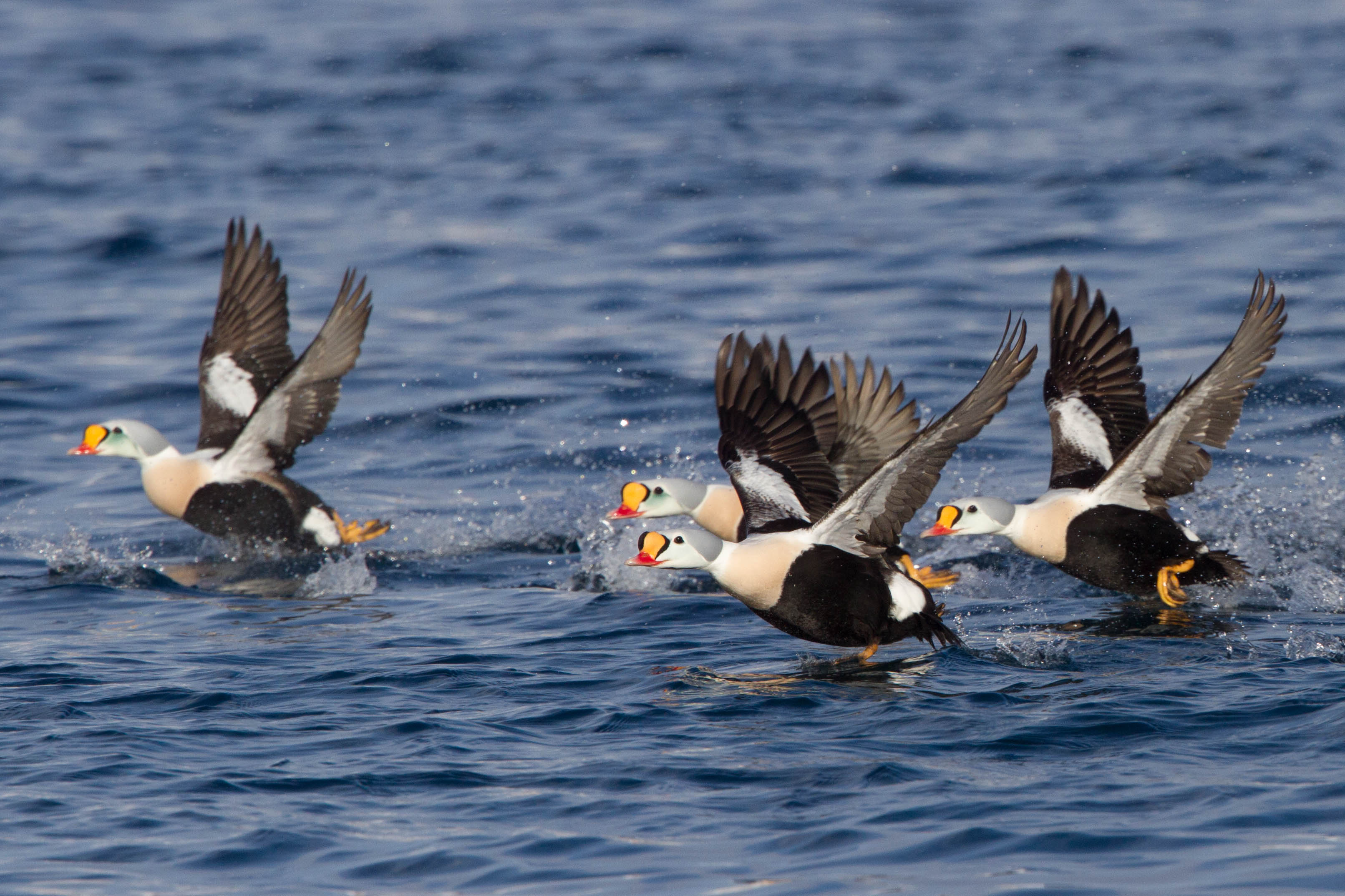 King Eider Somateria spectabilis, northern Norway